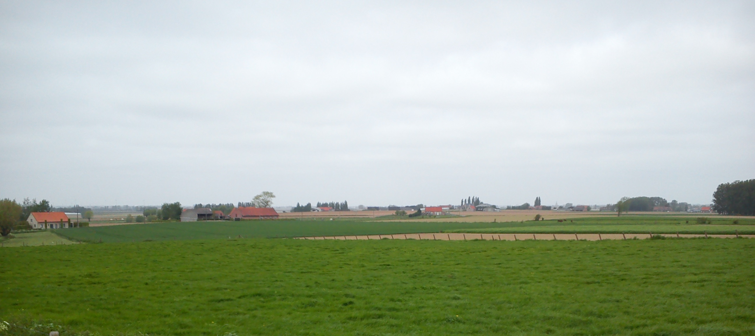 Flanders fields at Passendale, Belgium: Photo taken from a position approx 50°53'11.4"N 2°59'51.7"E on the western edge of Tyne Cot Cemetery, facing approx north-northwest